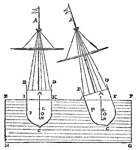 Centers of gravity and buoyancy according to Stevin